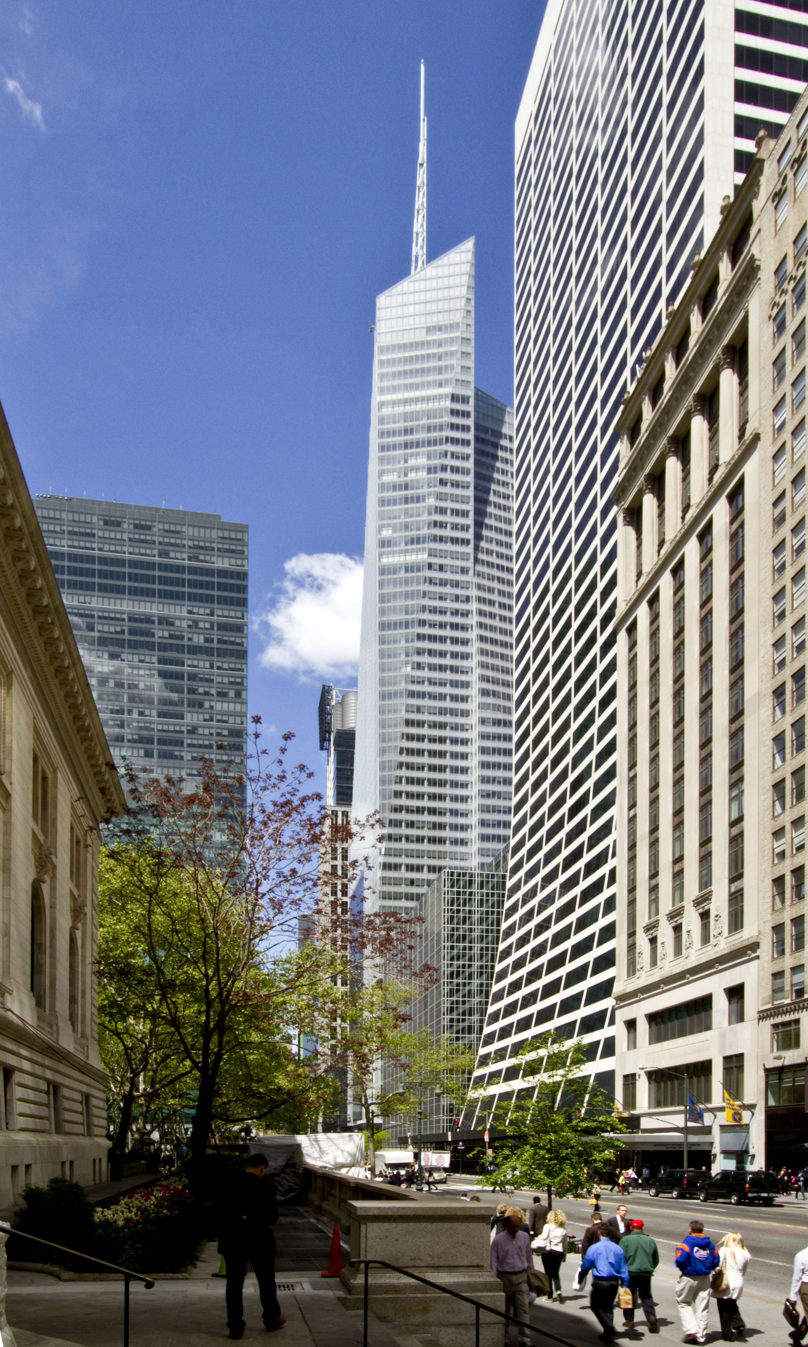 One Bryant Park